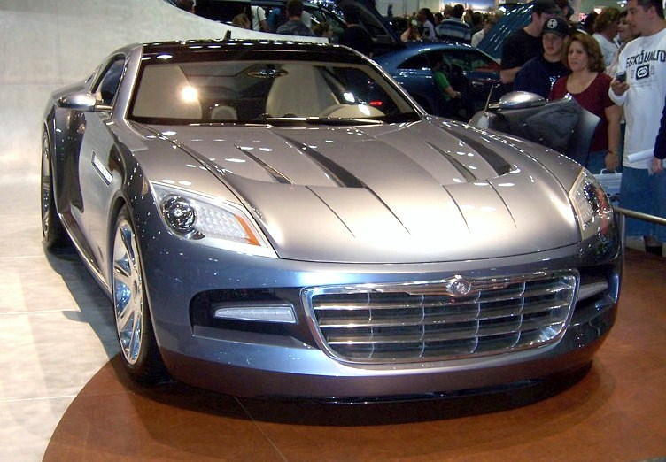 Chrysler Firepower on display at the 2006 NAIAS